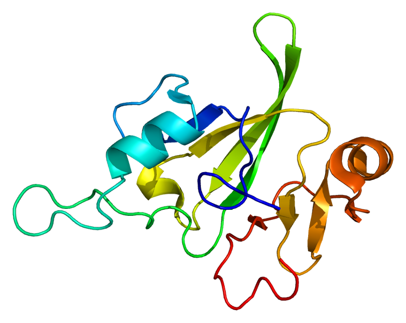 Structure of the HBP1 protein. Based on PyMOL rendering of PDB 1v06.